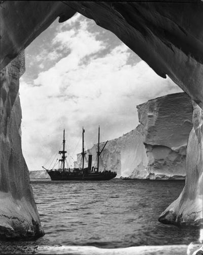 A glimpse of the Aurora from within the cavern in the wall of the shelf-ice of the Mertz Glacier Tongue, Commonwealth Bay, Adelie Land, Australasian Antarctic Expedition,.